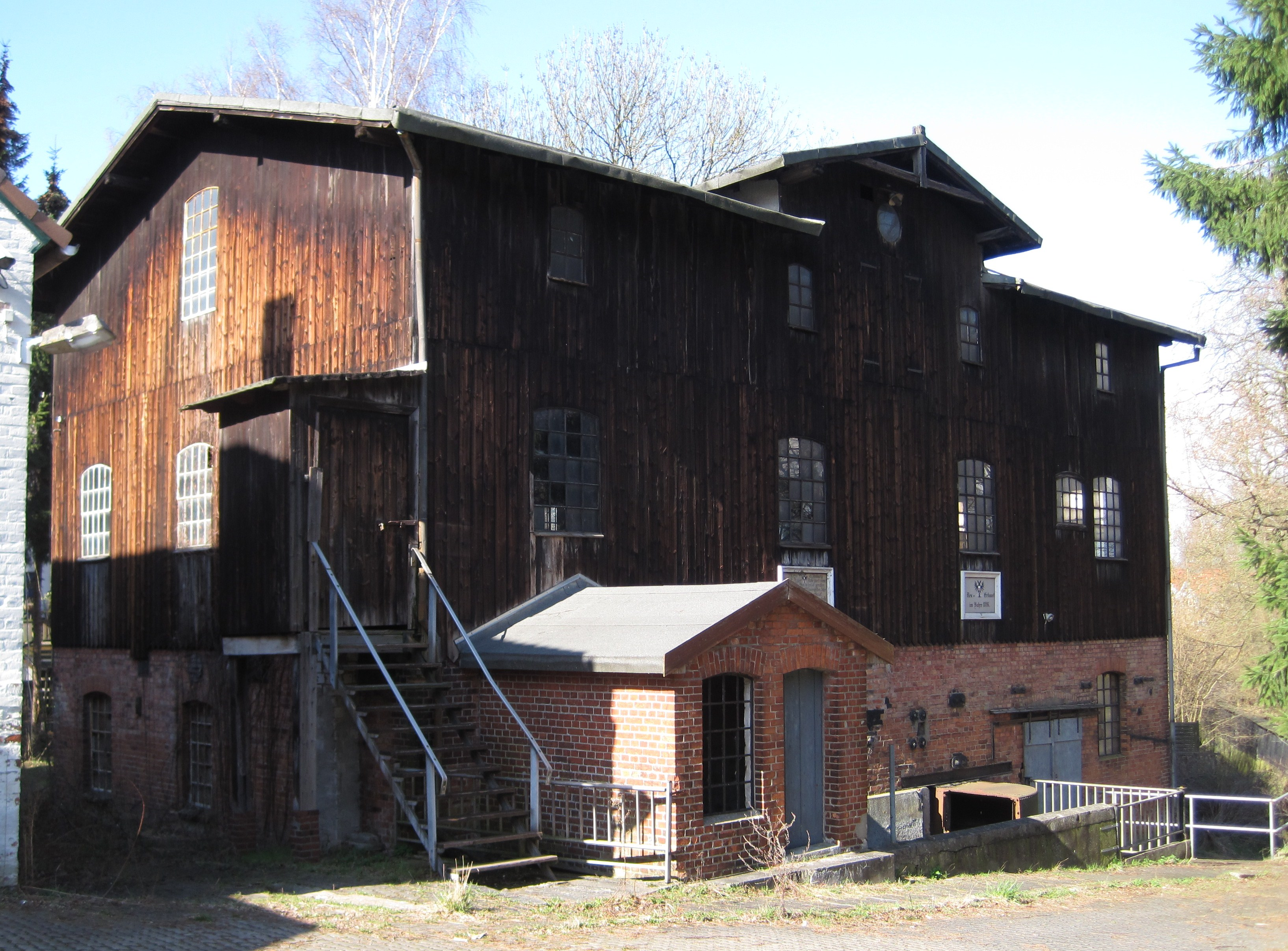 Watermill in Schlutup, a district of Lübeck.